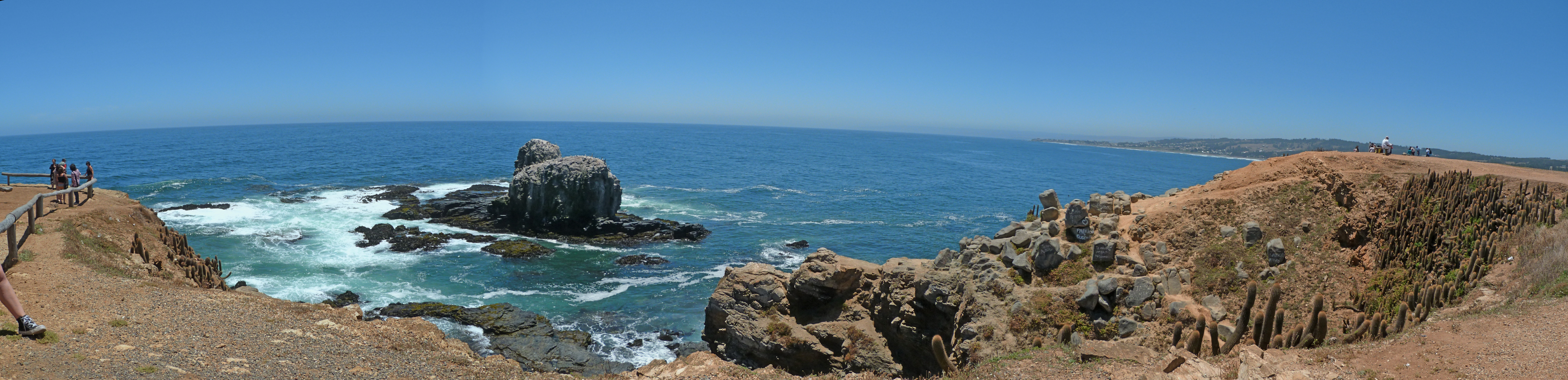 Panoramic view of Punta de Lobos